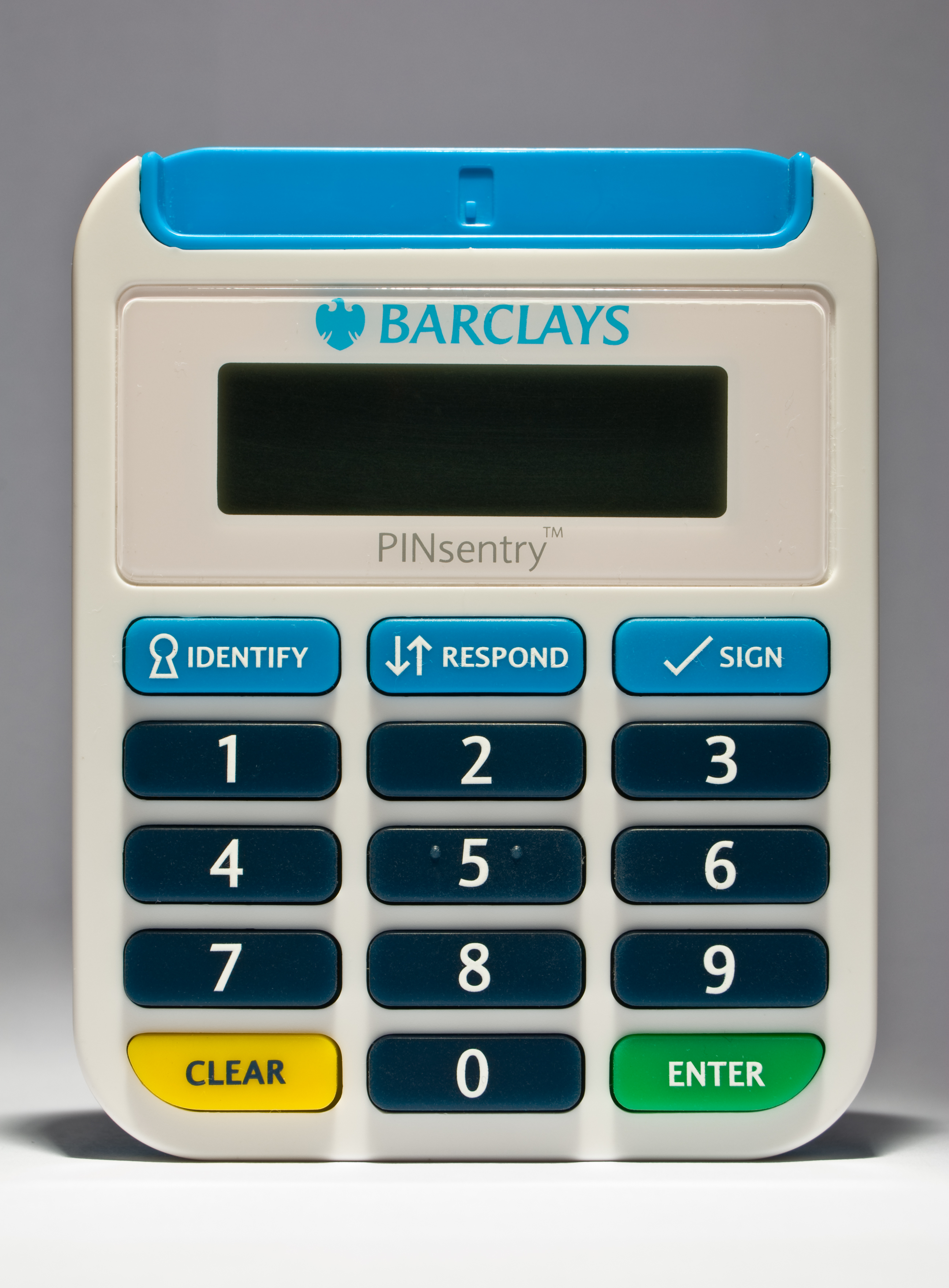 Image of a Barclays PINsentry Dynamic Passcode Authentication Device.